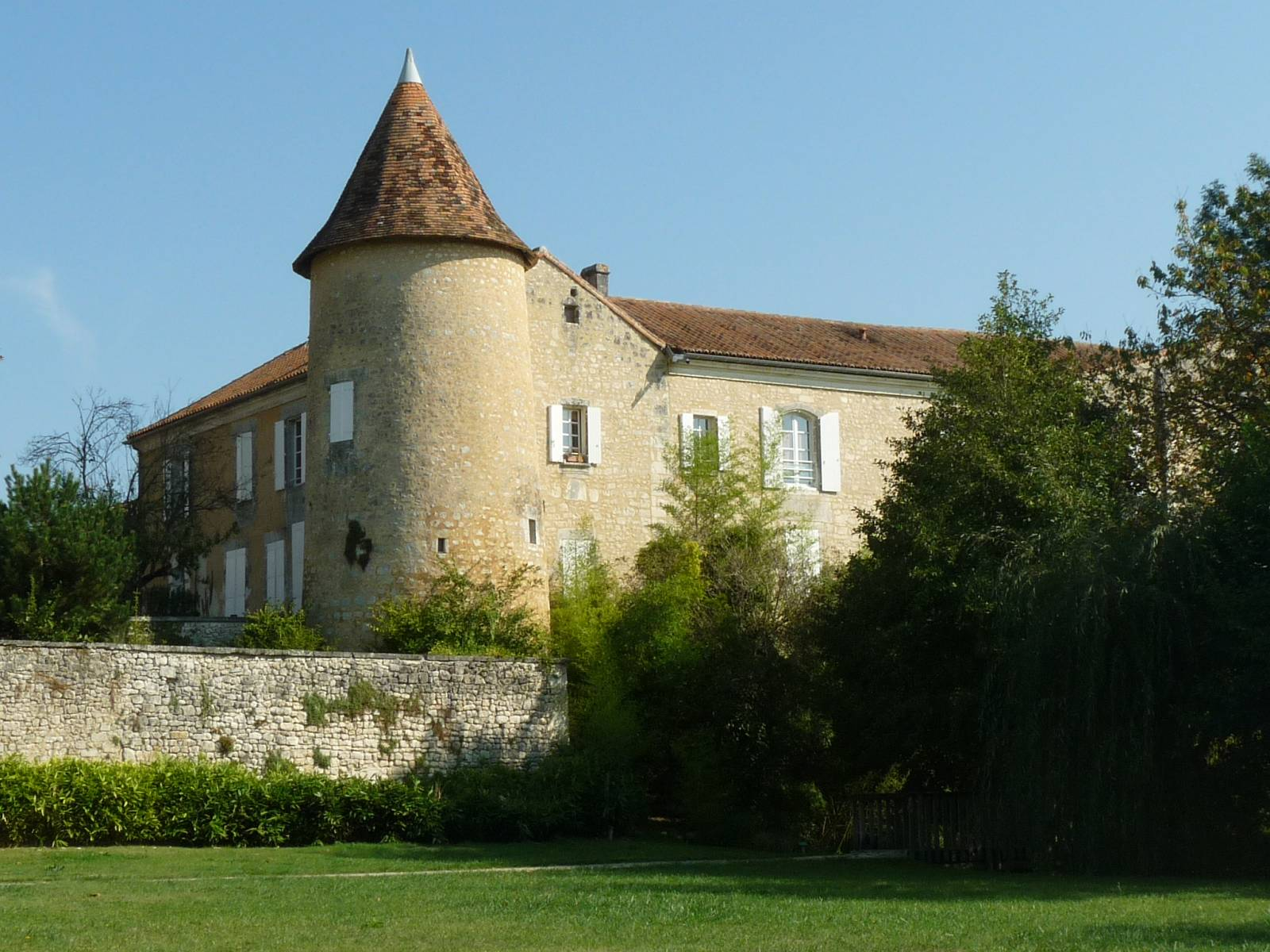 town hall of Blanzaguet-Saint-Cybard, Charente, SW France